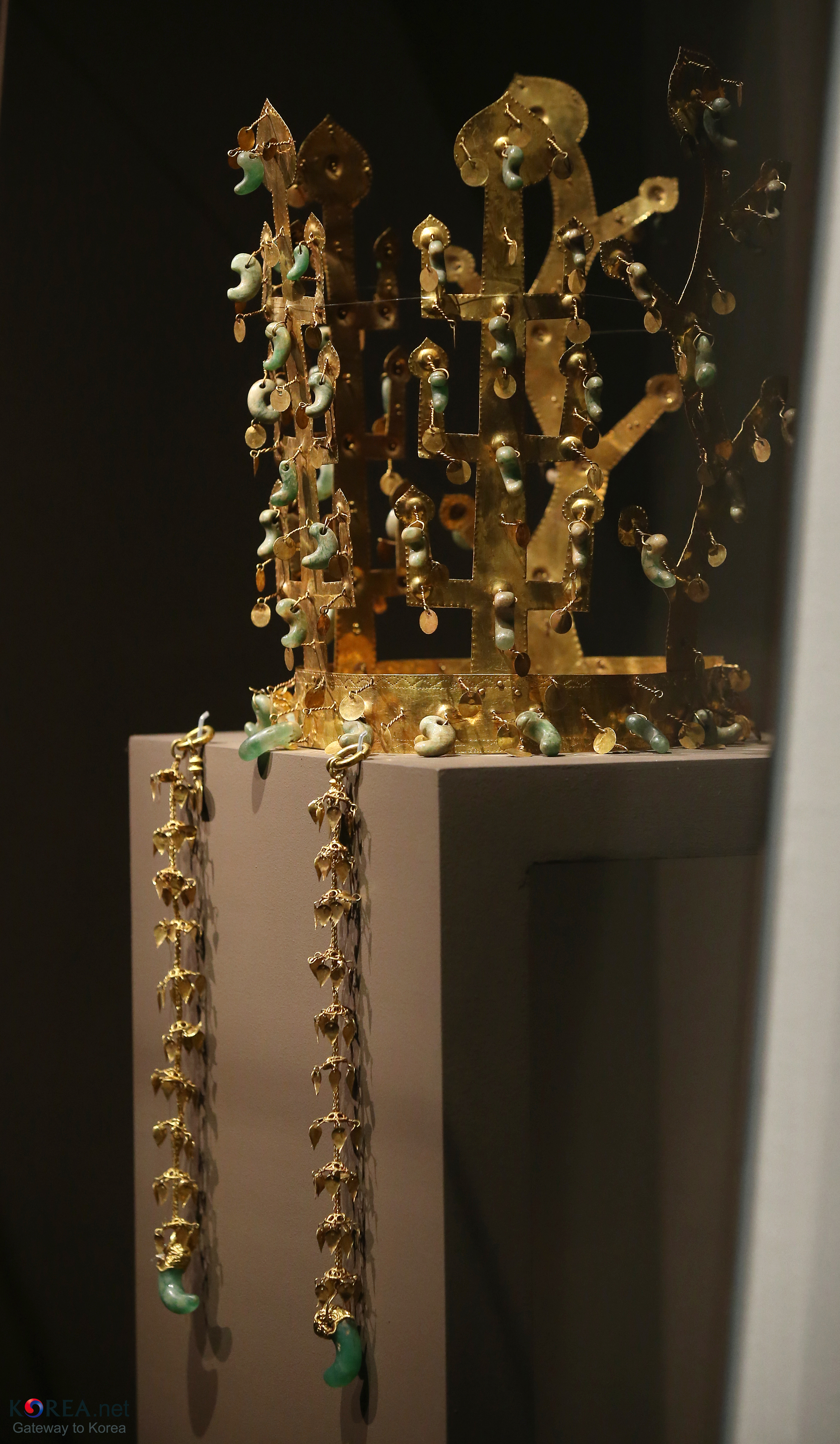 Special Exhibitions and symposium ‘The Geumgwanchong Tomb and King Isaji’ Gold Crown / National Treasure No. 87 The gold crown excavated at the Geumgwanchong Tomb was the first of all the Silla crowns to be discovered to date. The crown consists of a base band with ornamentation in the shape of tree branches and antlers erected upon it, which are elaborately decorated with 133 gold leaves and 57 jades. The standing ornaments feature single dotted lines along the edges, while the base band displays an incised wave pattern. Experts believe that the band was also hung with a pair of dangling golden ornaments. July 11, 2014 National Museum of Korea, Yongsan-gu, Seoul